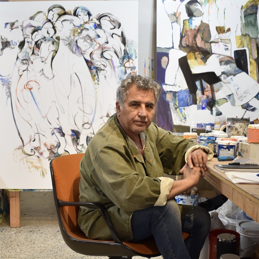 Hessam Abrishami in Studio